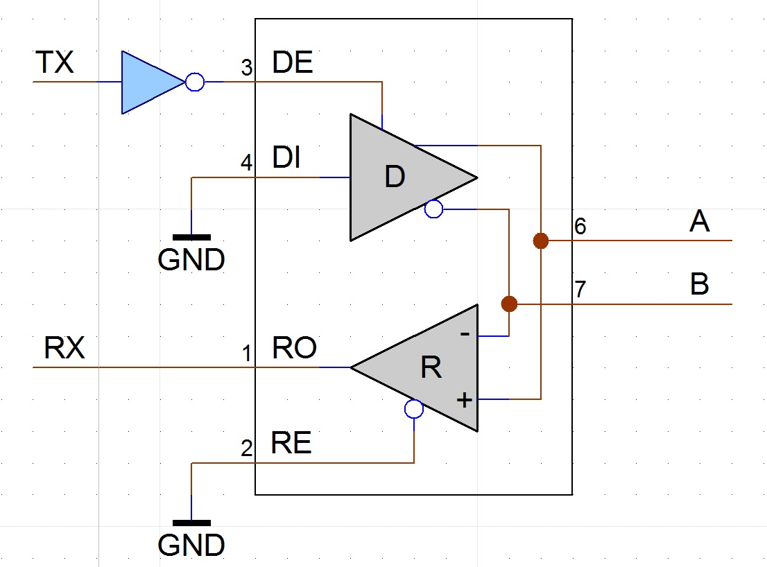 Implementacja układu DS75176B według standardu SAE J1708 wyższa rozdzielczość